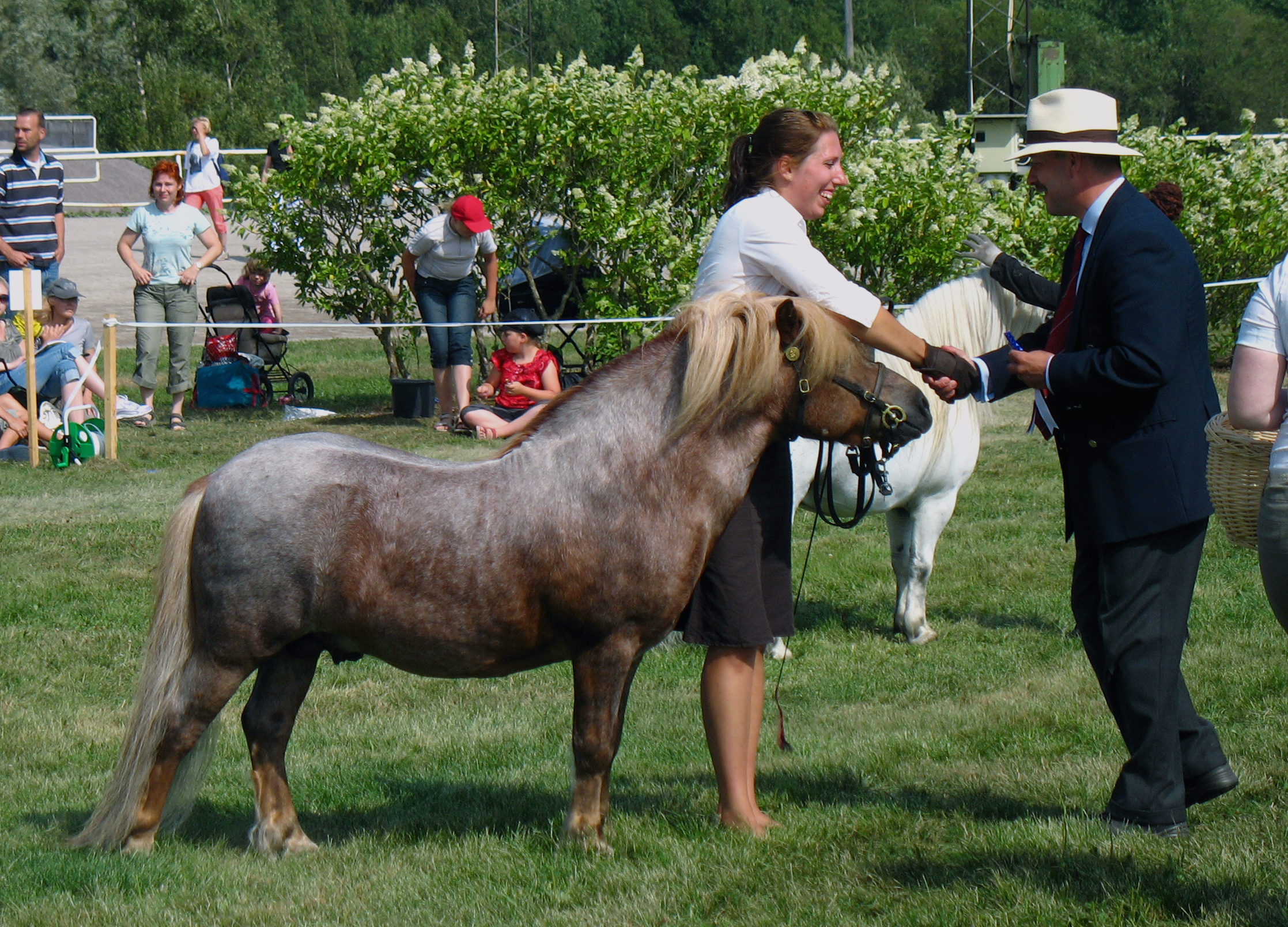 A 12-year-old strawberry roan with flaxen Shetland pony stallion is being rewarded with a I prize.